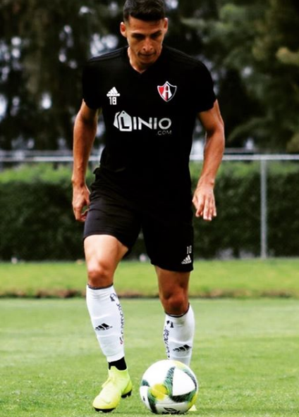 Manu Balda en un entrenamiento del Atlas.